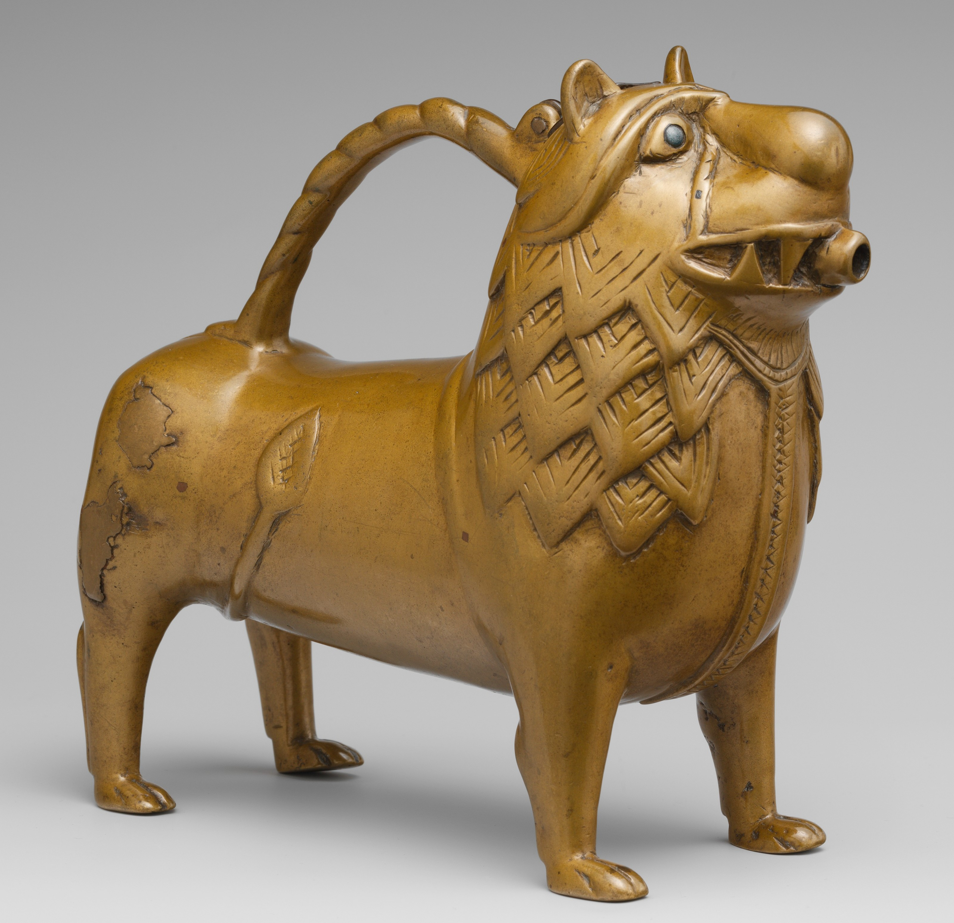 North German; Aquamanile; Metalwork-Copper alloy